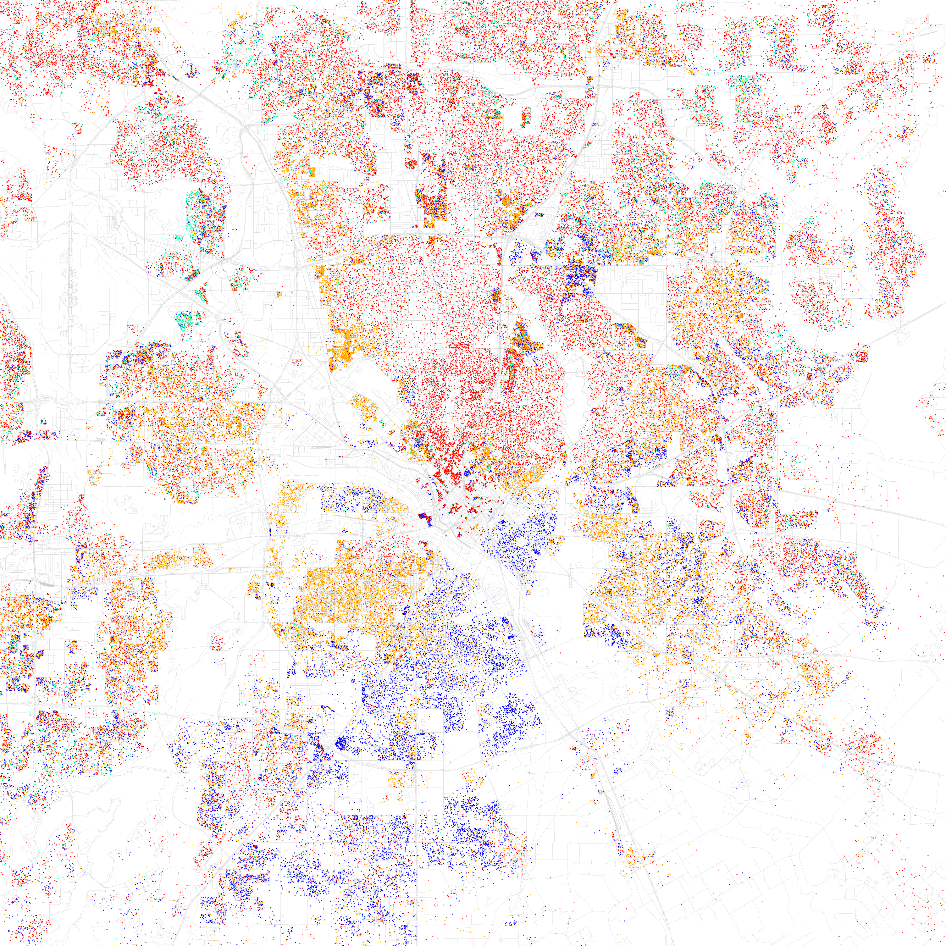 Maps of racial and ethnic divisions in US cities, inspired by Bill Rankin's map of Chicago, updated for Census 2010. Red is White, Blue is Black, Green is Asian, Orange is Hispanic, Yellow is Other, and each dot is 25 residents. Data from Census 2010. Base map © OpenStreetMap, CC-BY-SA